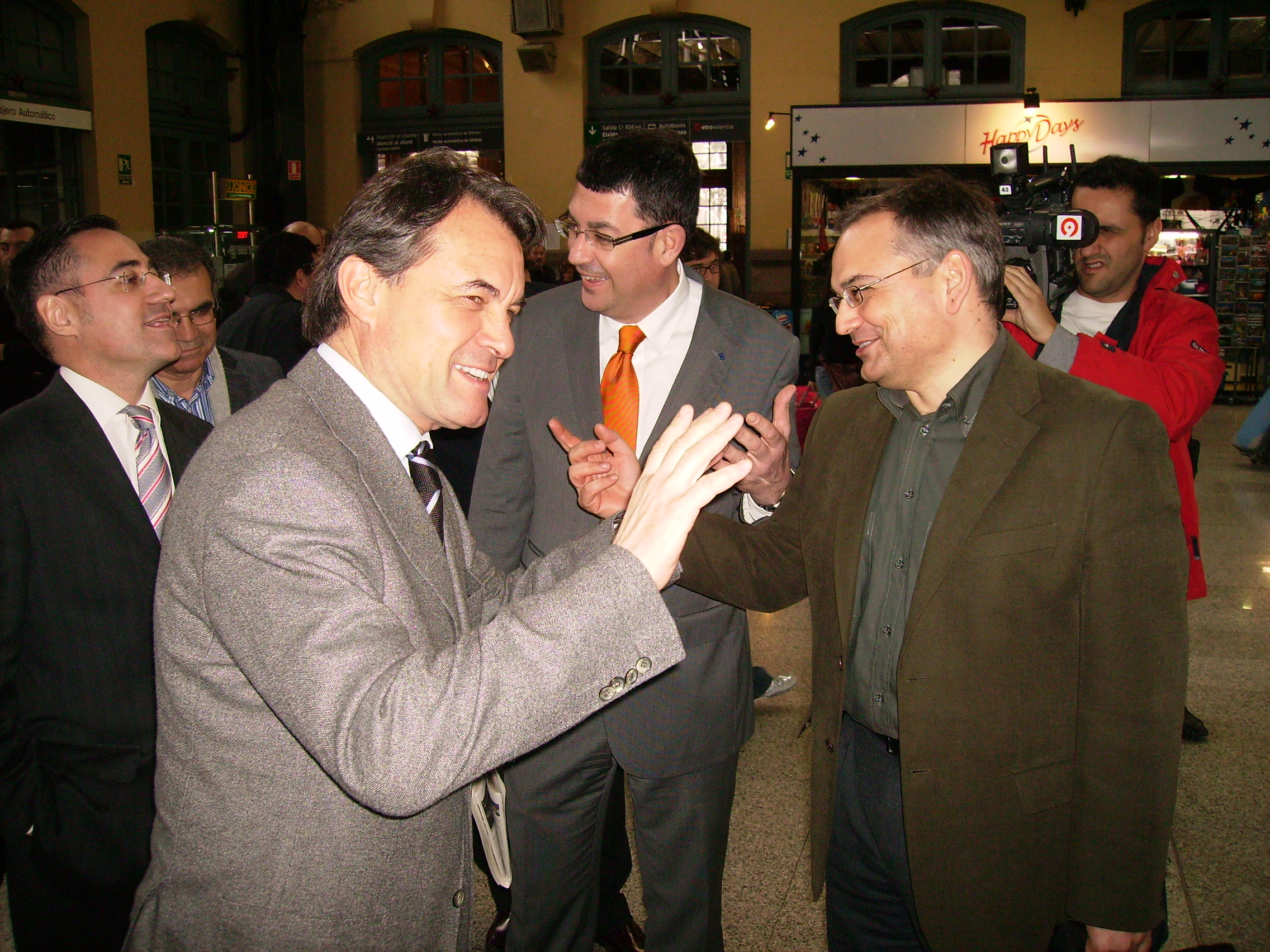 Josep Maria Pañella and Enric Morera, BLOC; Ramon Tremosa and Artur Mas; CDC, and Josep Vicent Boira, geographer